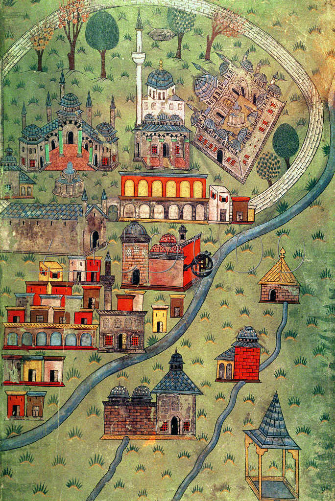 Nasuh Al-Silahi - View of Eskisehir